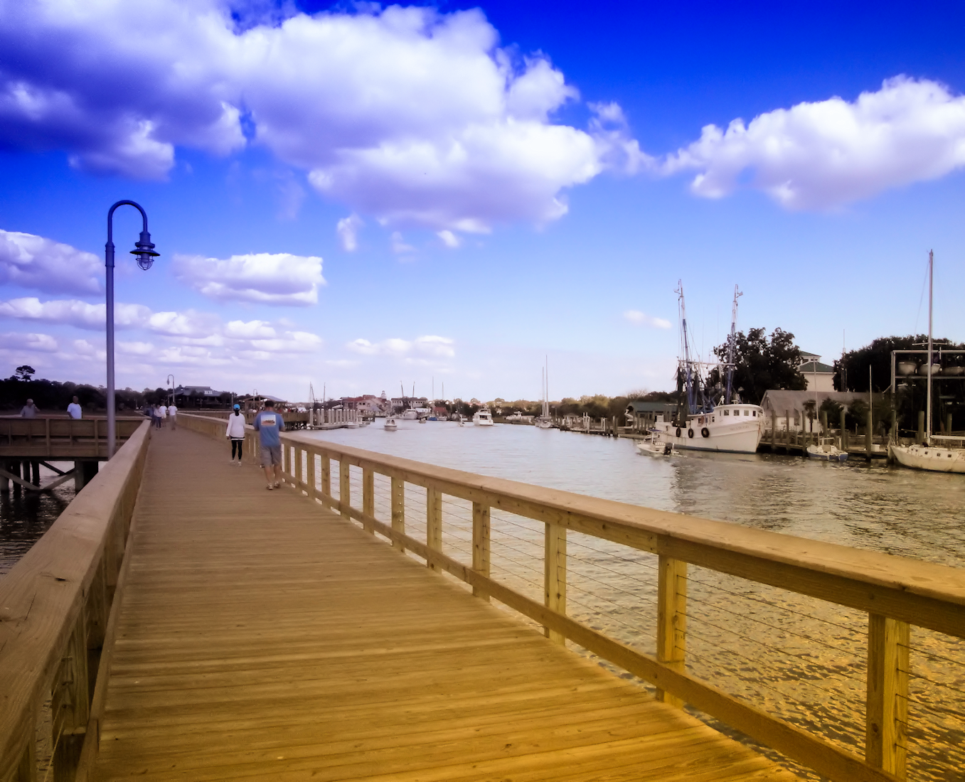 Board Walk @ Shem Creek in Mount Pleasant, SC.